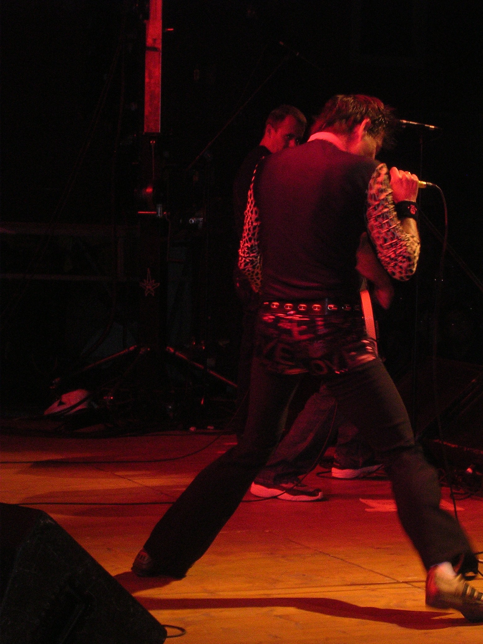 Didier Wampas, signer of Les Wampas, during a show in Chambéry (France) 2004/8/6